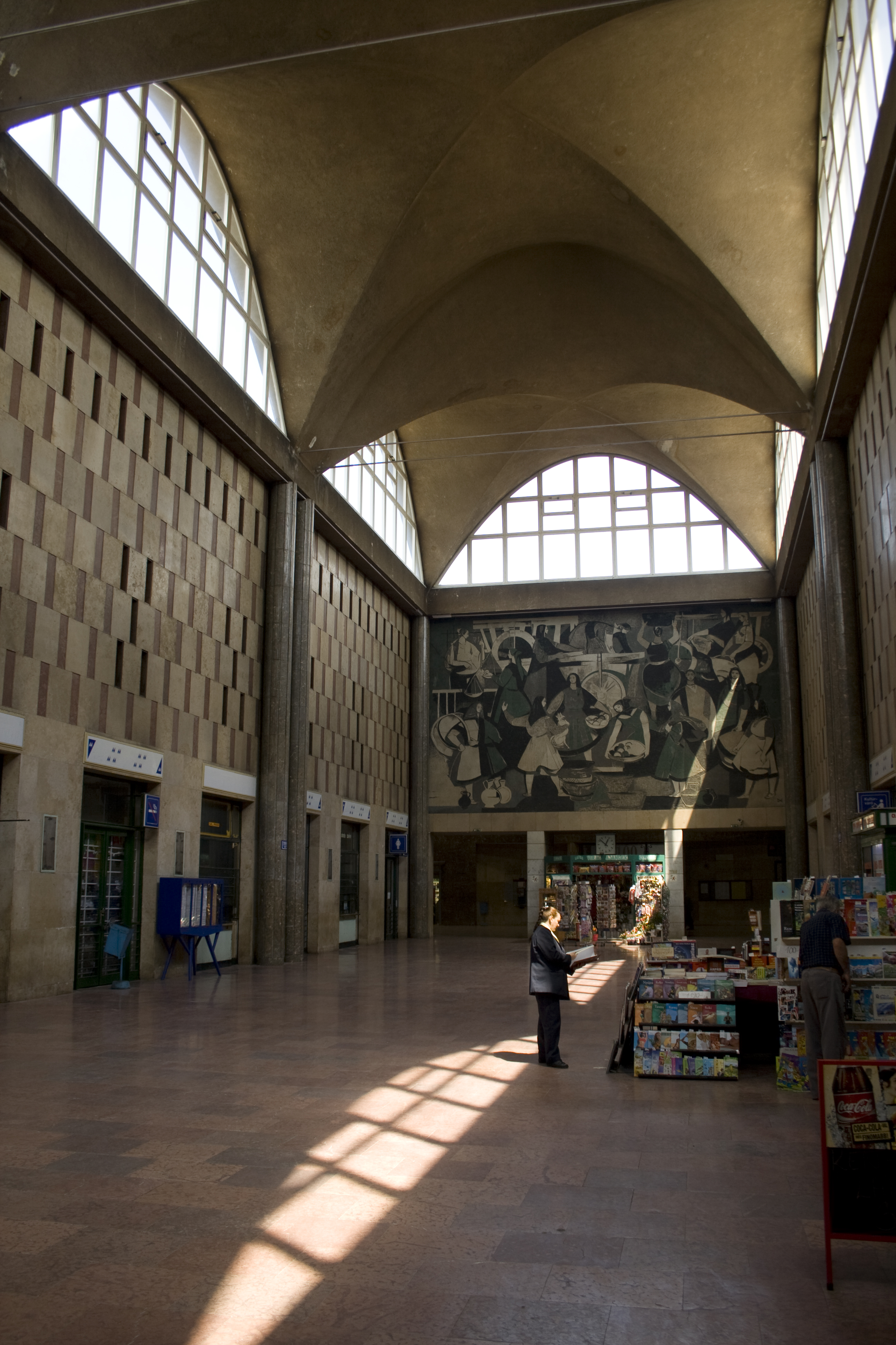 Main hall of the Debrecen railway station